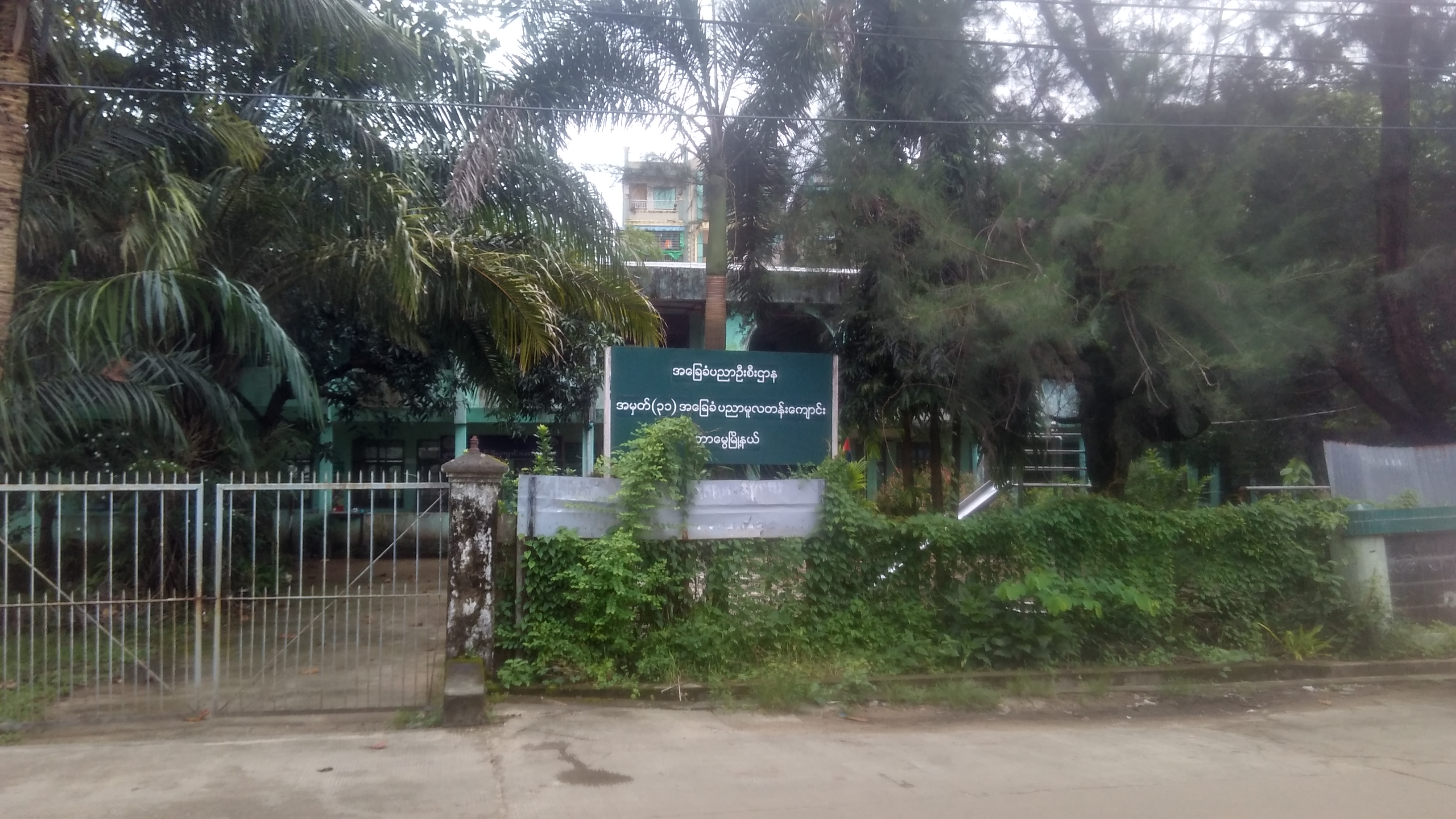 B.E.P.S (31) TAMWE မြန်မာဘာသာ: အမှတ် (၃၁)၊ အခြေခံပညာမူလတန်းကျောင်း၊ တာမွေ